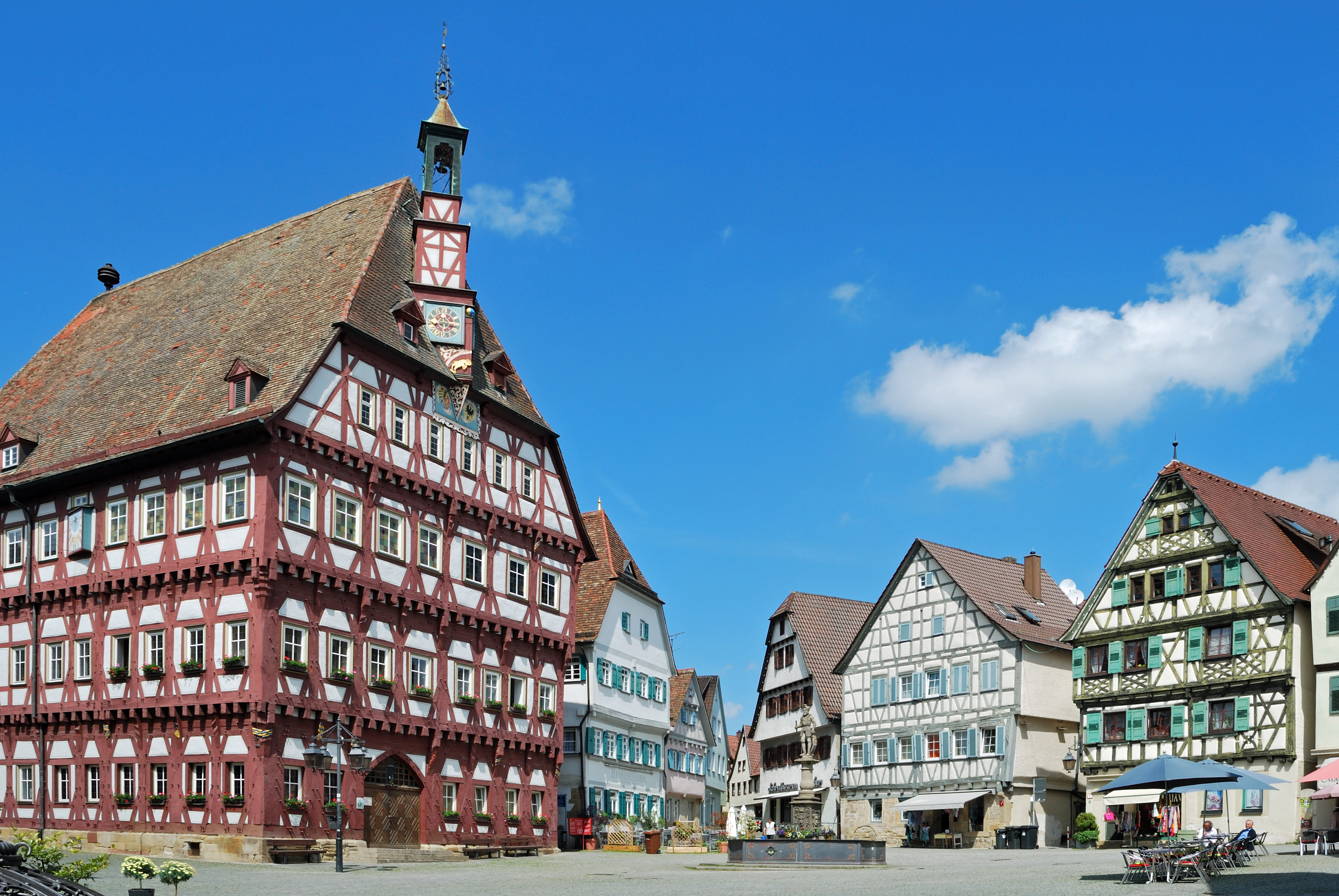 Market square with the Town Hall in Markgröningen, German Federal State Baden-Württemberg.